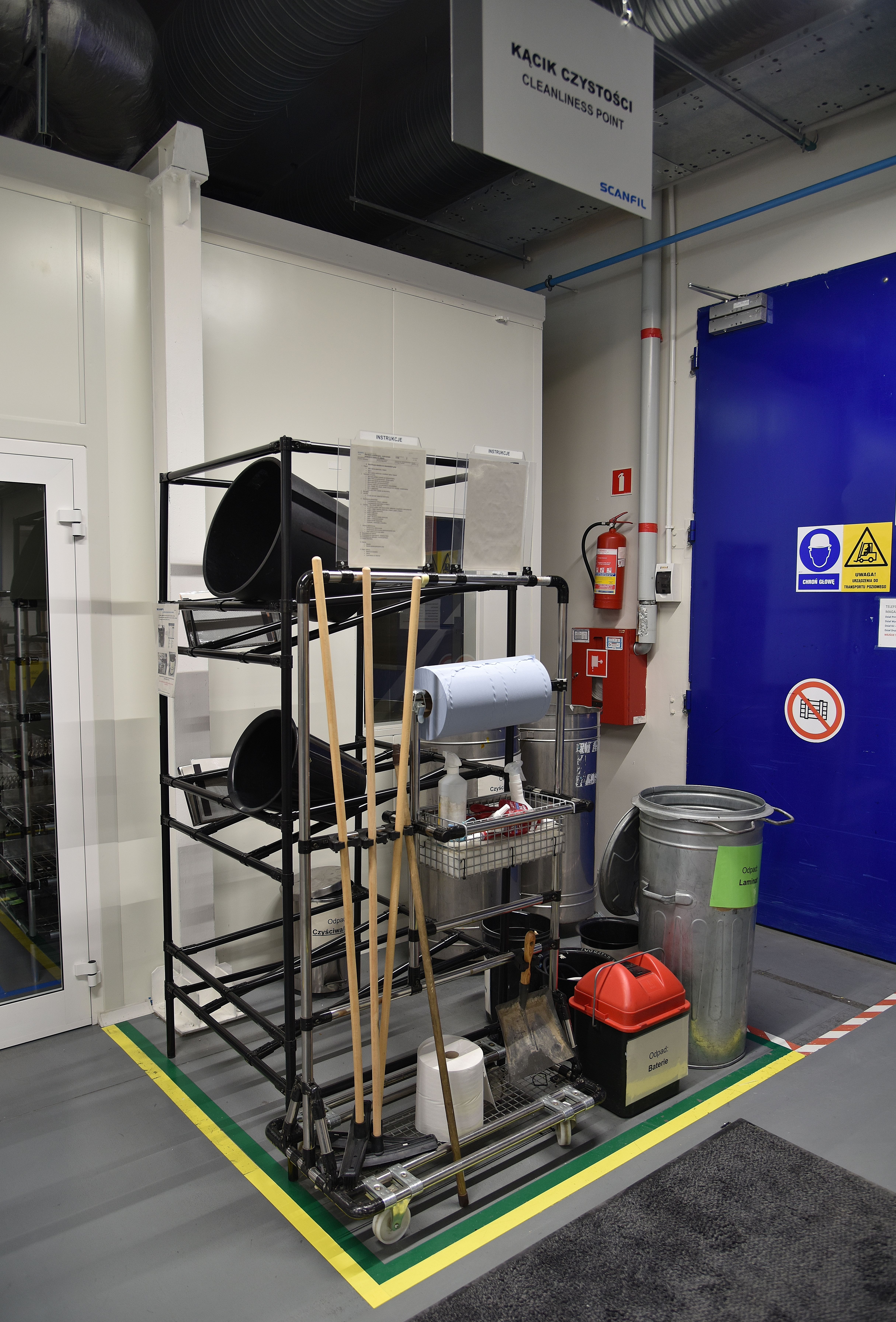 Cleanliness point at the Scanfil Poland factory in Sieradz